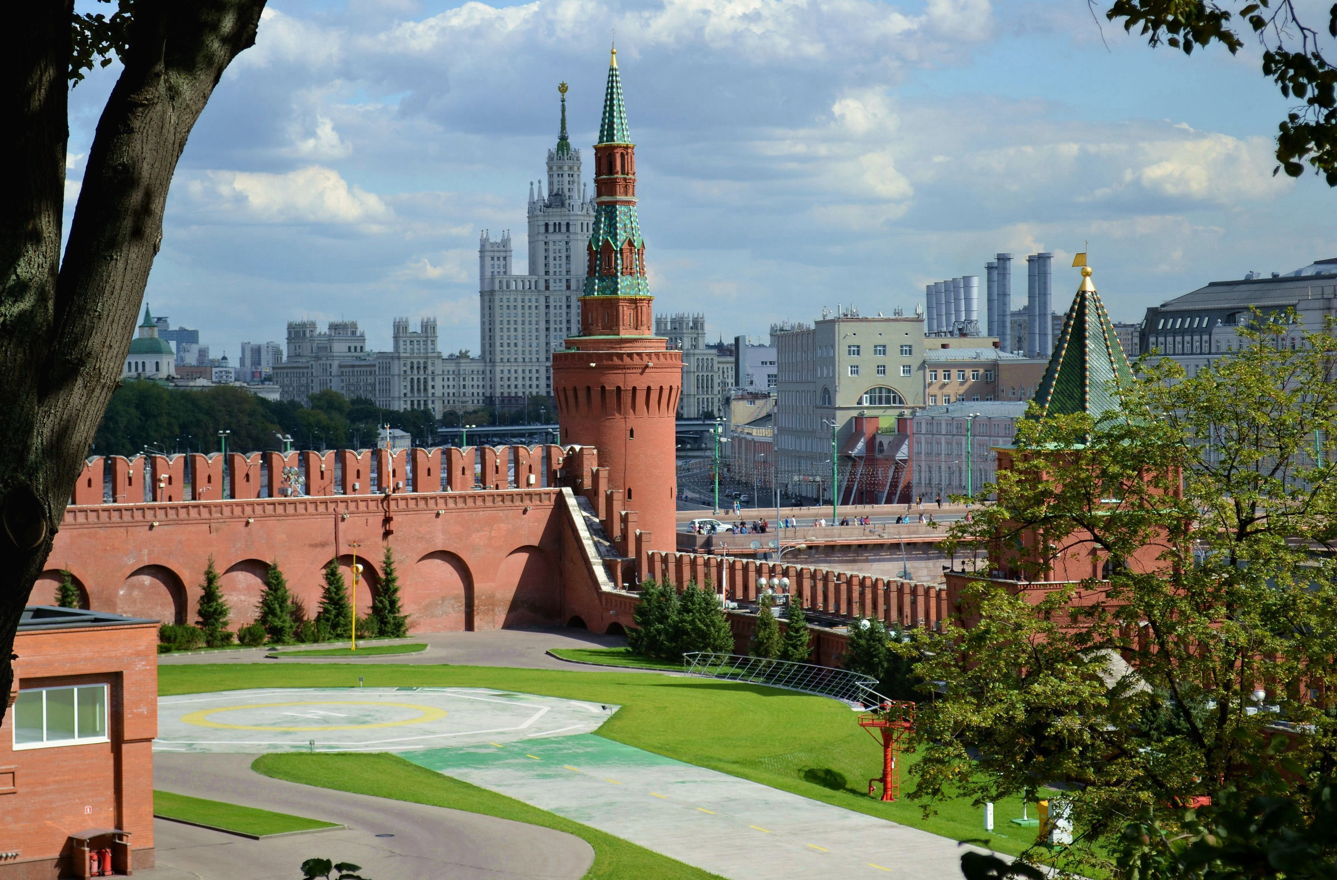 The Moscow Kremlin. The presidential helipad in the Taynitsky Garden (built in 2013). The Beklemishevskaya Tower is in the centre of the photograph, the Kotelnicheskaya Embankment Building is seen behind it. The Petrovskaya Tower is on the right, behind leaves.